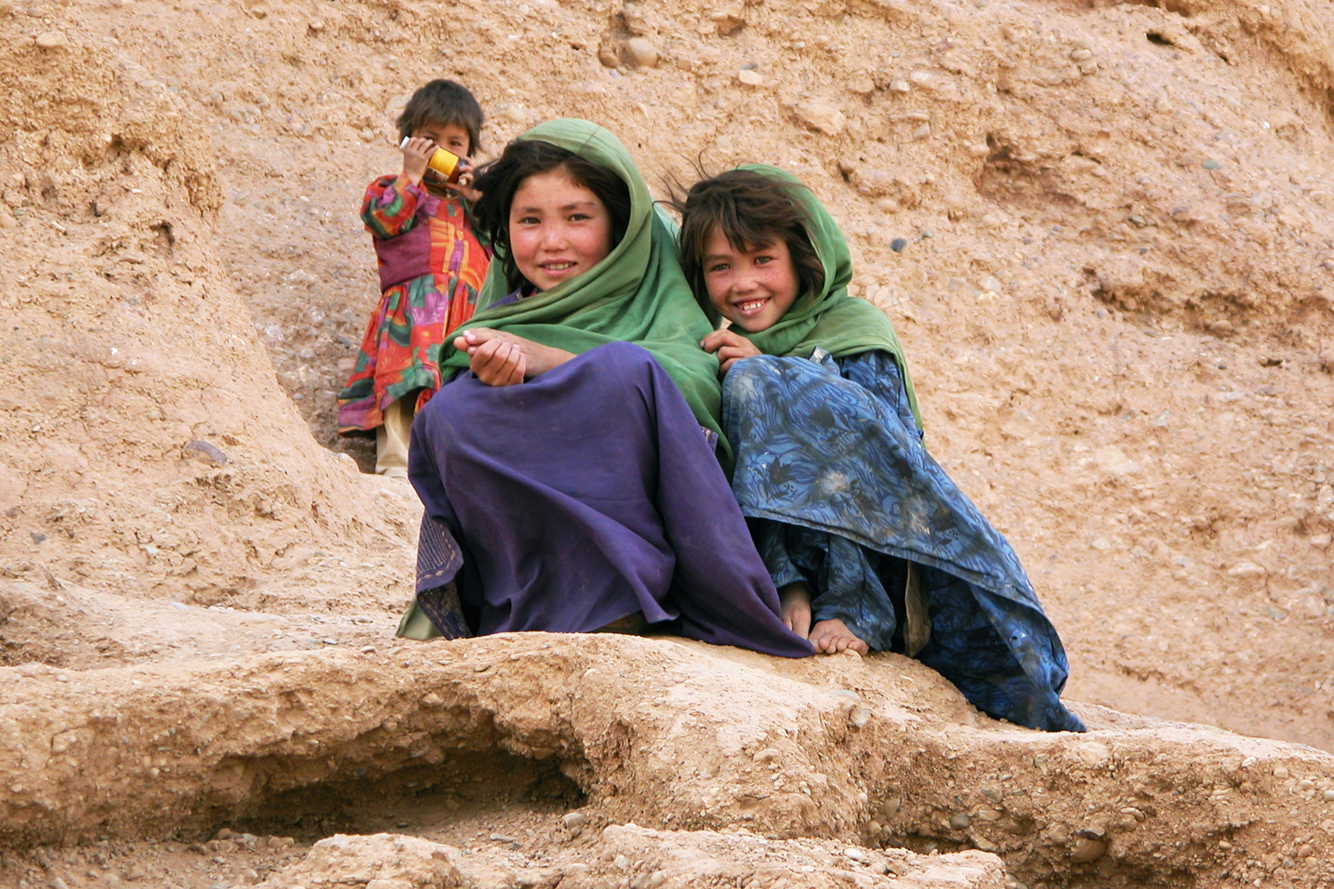 Bamiyan Site, children, Bamiyan, AfghanistanRomână: Copii în situl Bamiyan din Afganistan